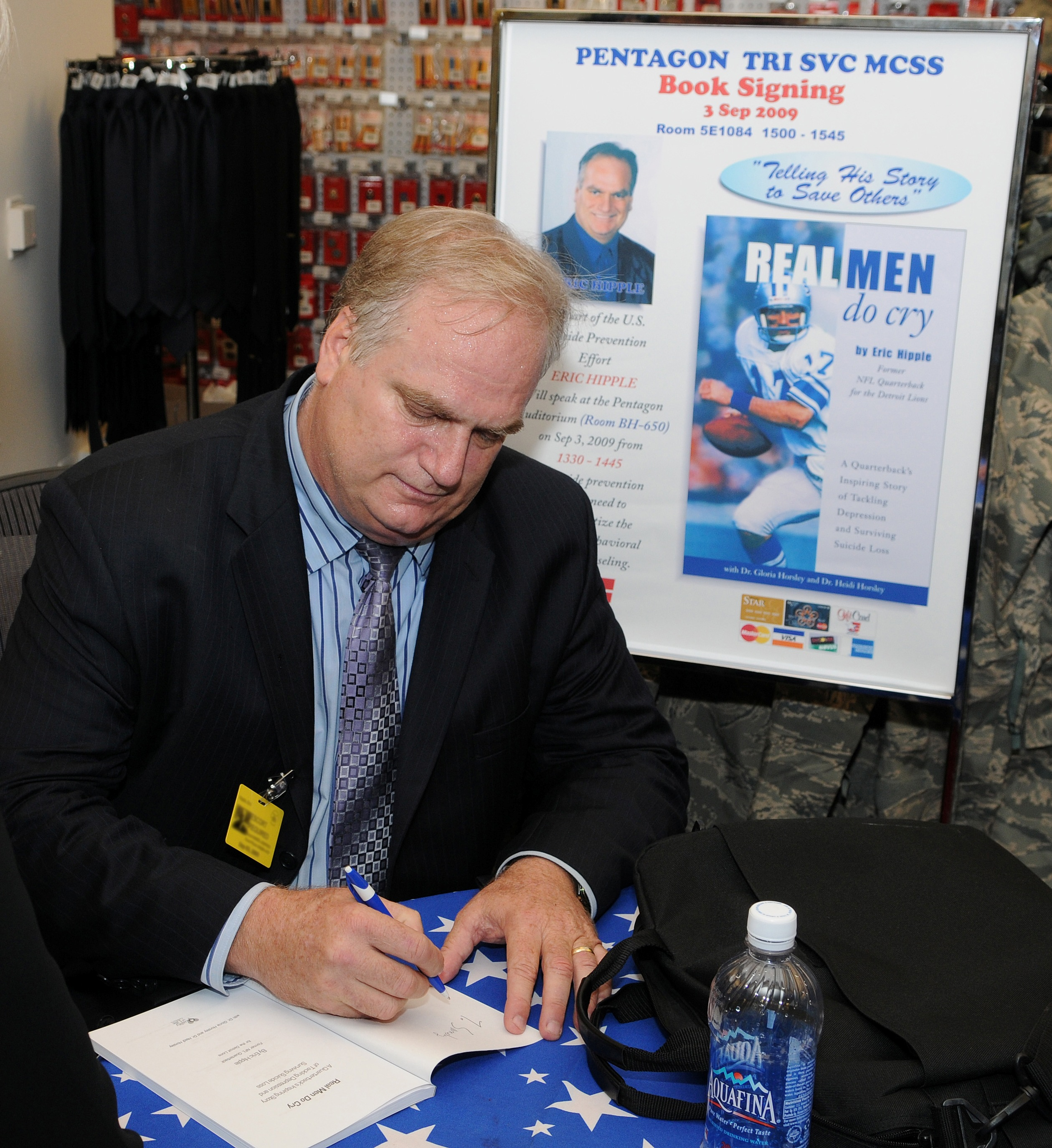 Eric Hipple signs his book "Real Men Do Cry" in the Pentagon Clothing Sales store.